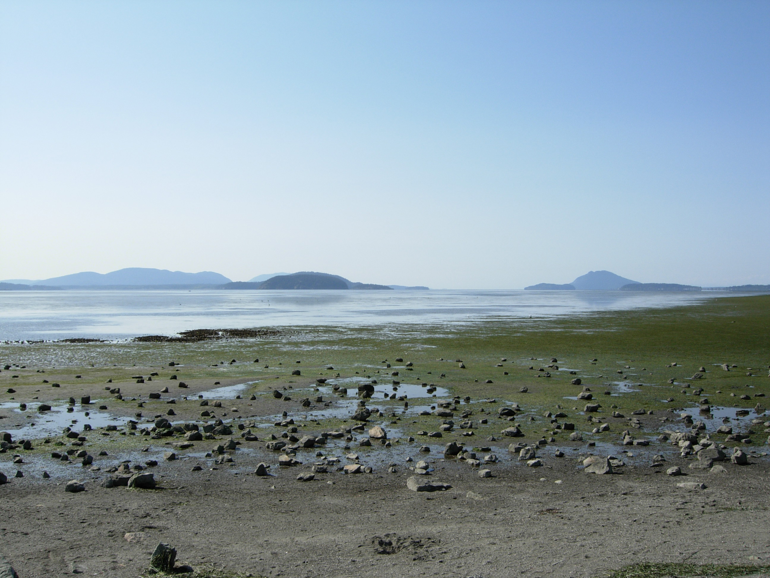 View of Padilla Bay from Bayview State Park; Bay View, Washington